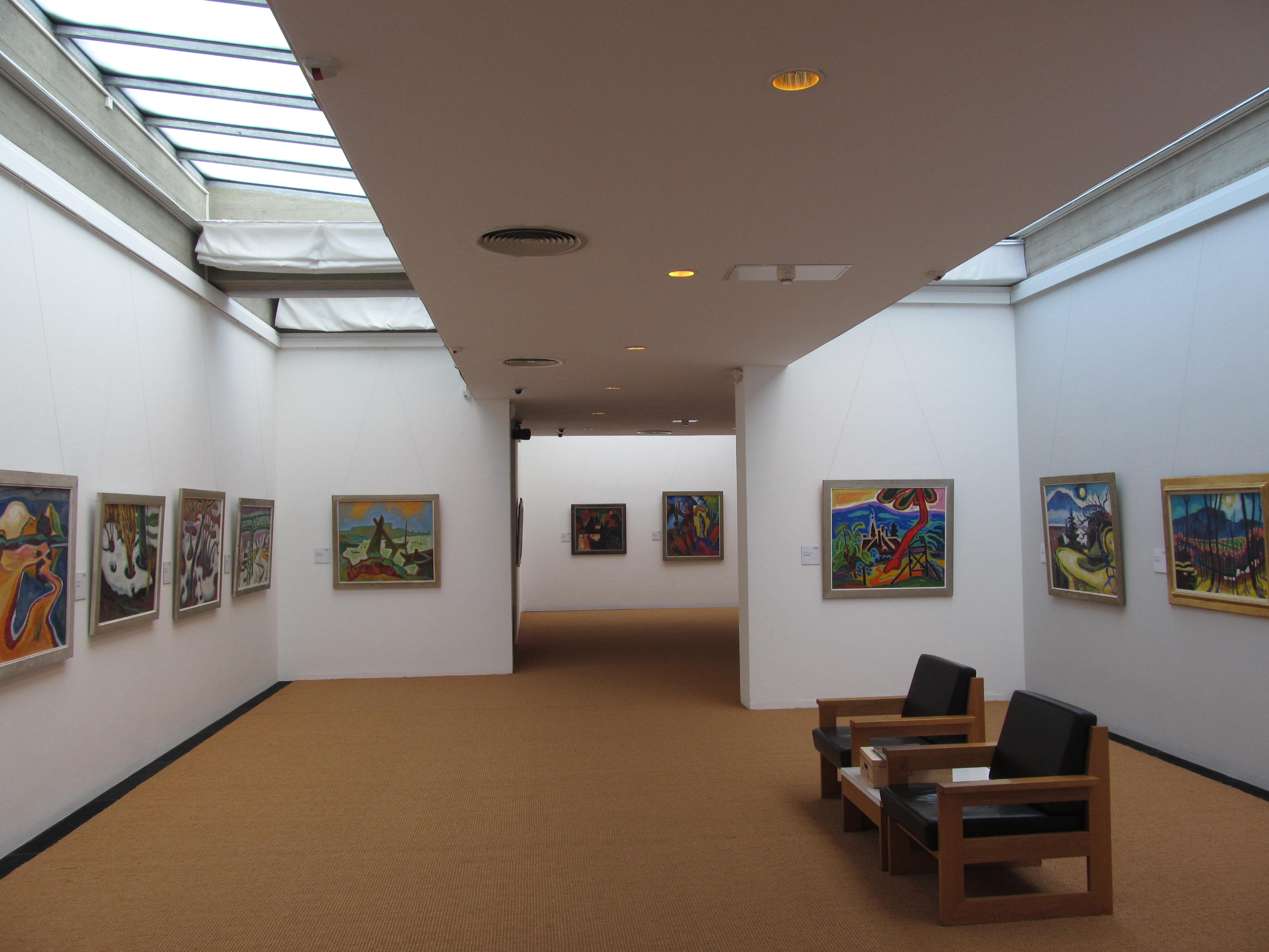 Interior of Brücke Museum Berlin